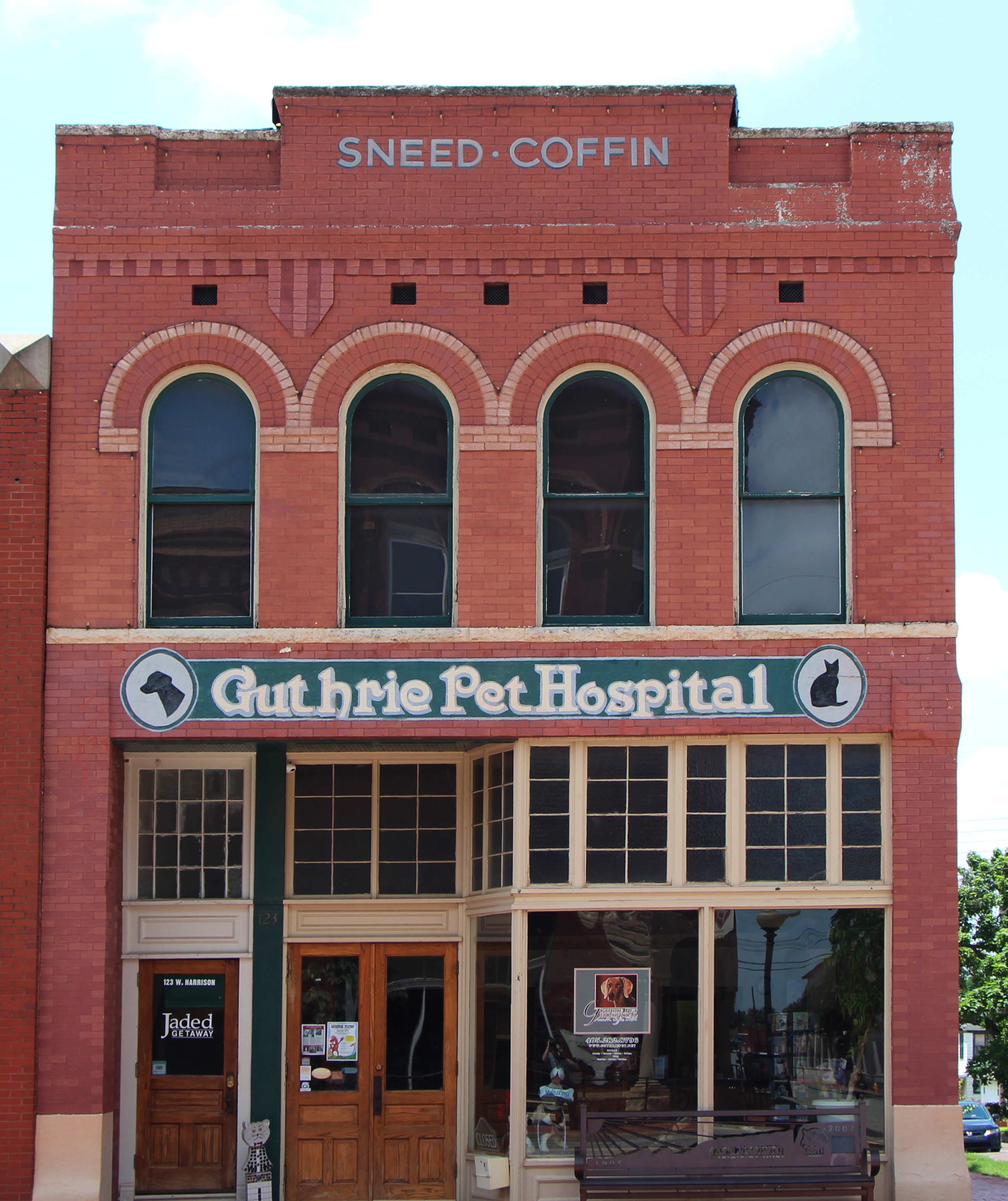 Sneed Coffin Building, Guthrie, Oklahoma